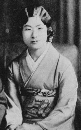 侯爵夫人時代の松浦董子 / Shigeko Matsura (1907–1989) when she was Marchioness Kuni